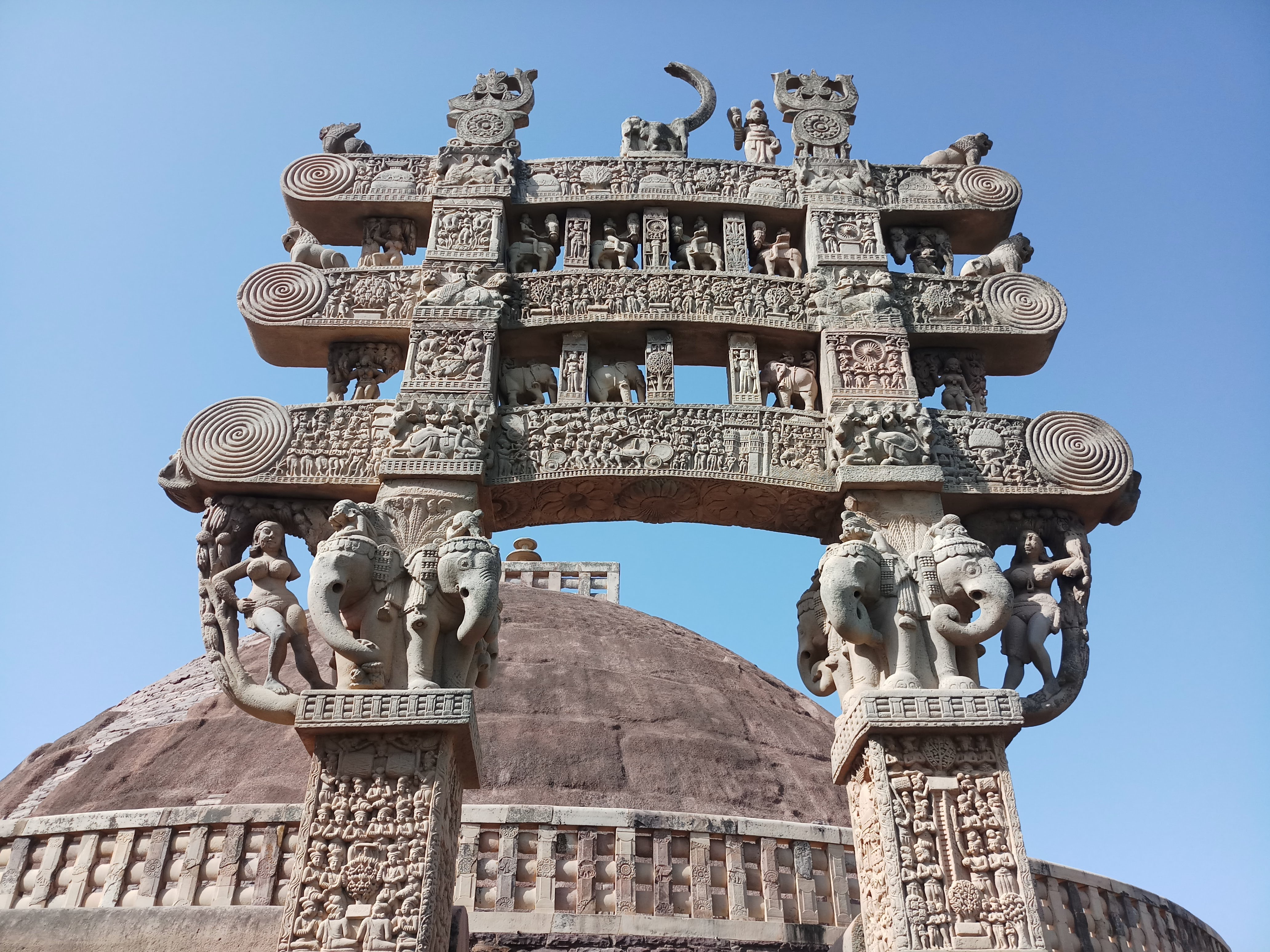 Monument at Sanchi Stupa India